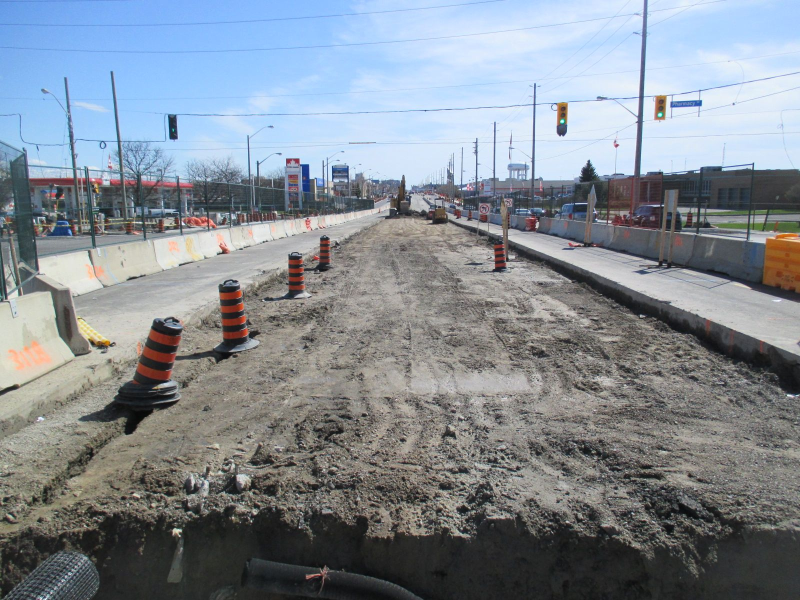 Constructing the guideway for the Eglinton Crosstown at Pharmacy Avenue (foreground) and site of the Pharmacy stop (background just beyond the traffic lights).